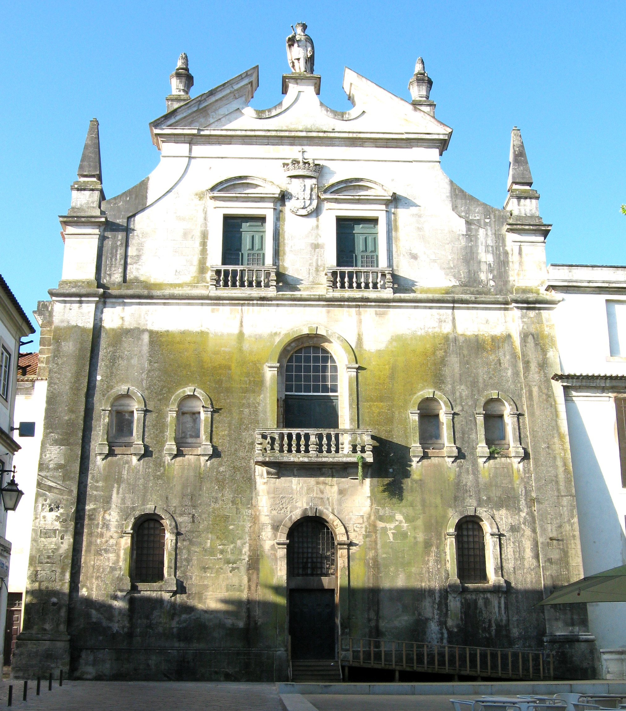 Alcobaça, Portugal, Mosteiro de Alcobaça, façade of the Dormitorio / Sala dos Monges, renewed 1709